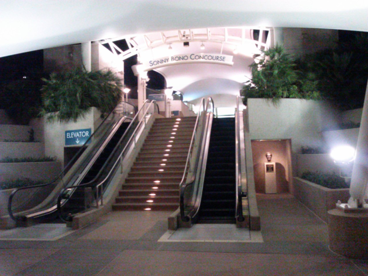 Sonny Bono Concourse, or Gates 4-11, with Bono's bust beside the escalator.